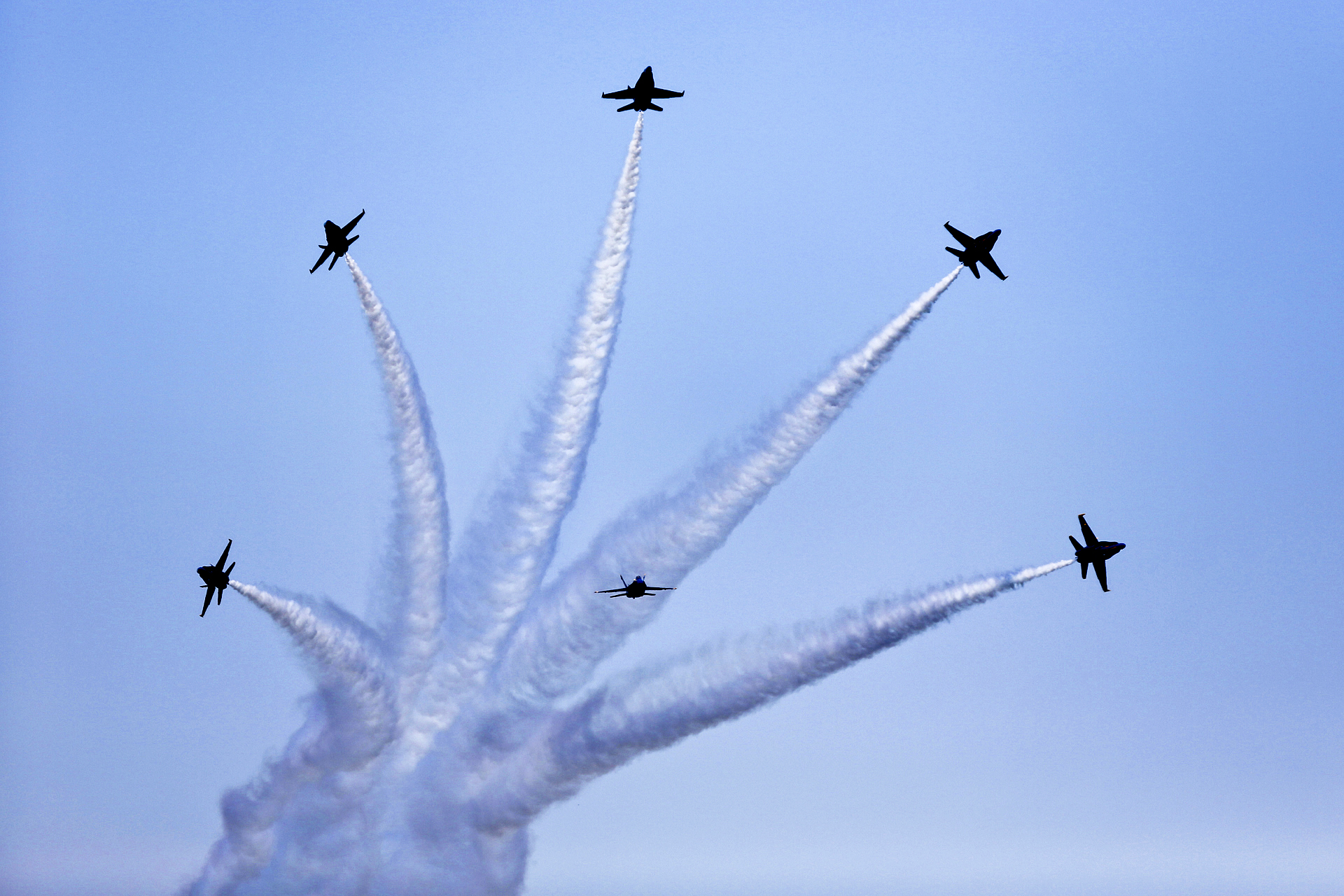 The Blue Angels, the Navy's flight demonstration squadron, shoot off in different directions during the 2012 Robins Air Show over Robins Air Force Base, Ga., April 29, 2012. U.S. Air Force photo/1st Lt. Joel Cooke